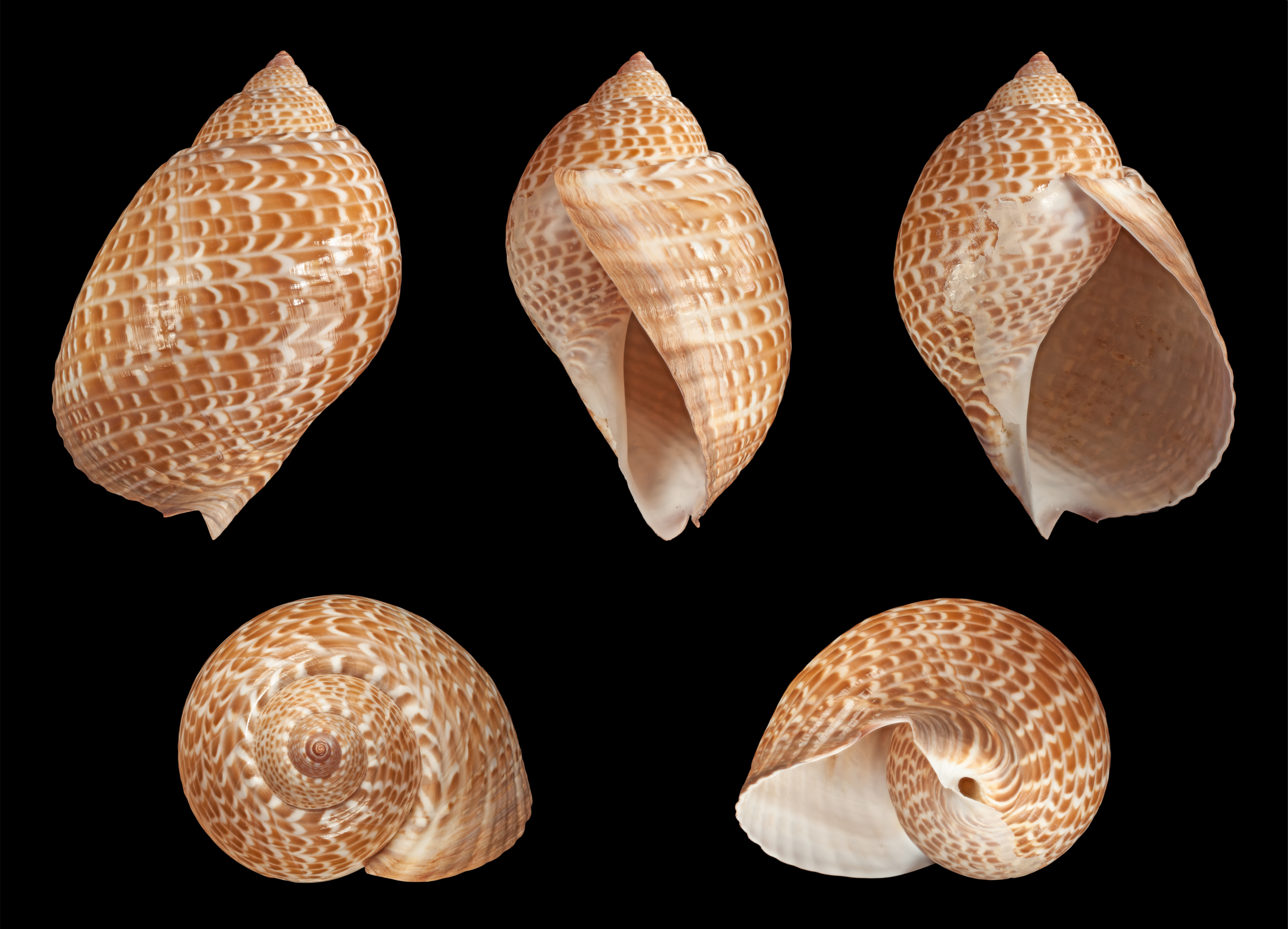 Tonna perdix (Linné, 1758), Partridge Tun, spotted form; length 13.4 cm; Originating from the Philippines. Shell of own collection, therefore not geocoded.